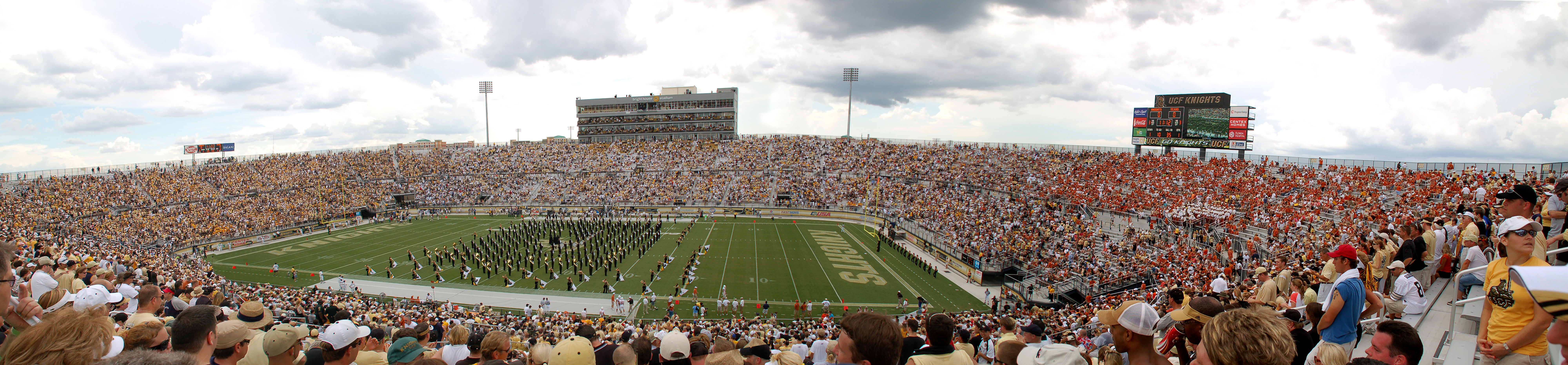 Opening day for the new Bright House Networks Stadium at University of Central Florida. Pre-game.